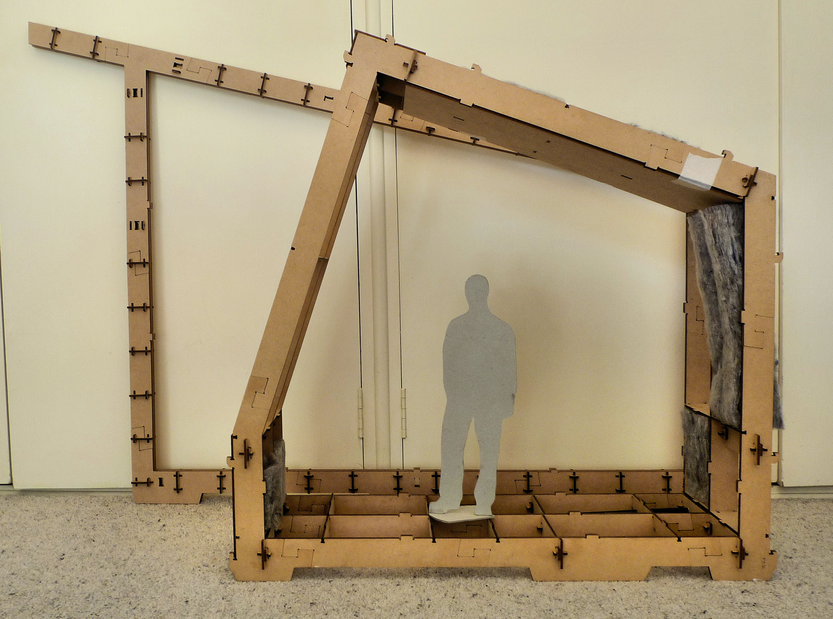 Scale model of sample WikiHouse v1.0 3.6m span with WikiHouse v2.0 4.8m span in background